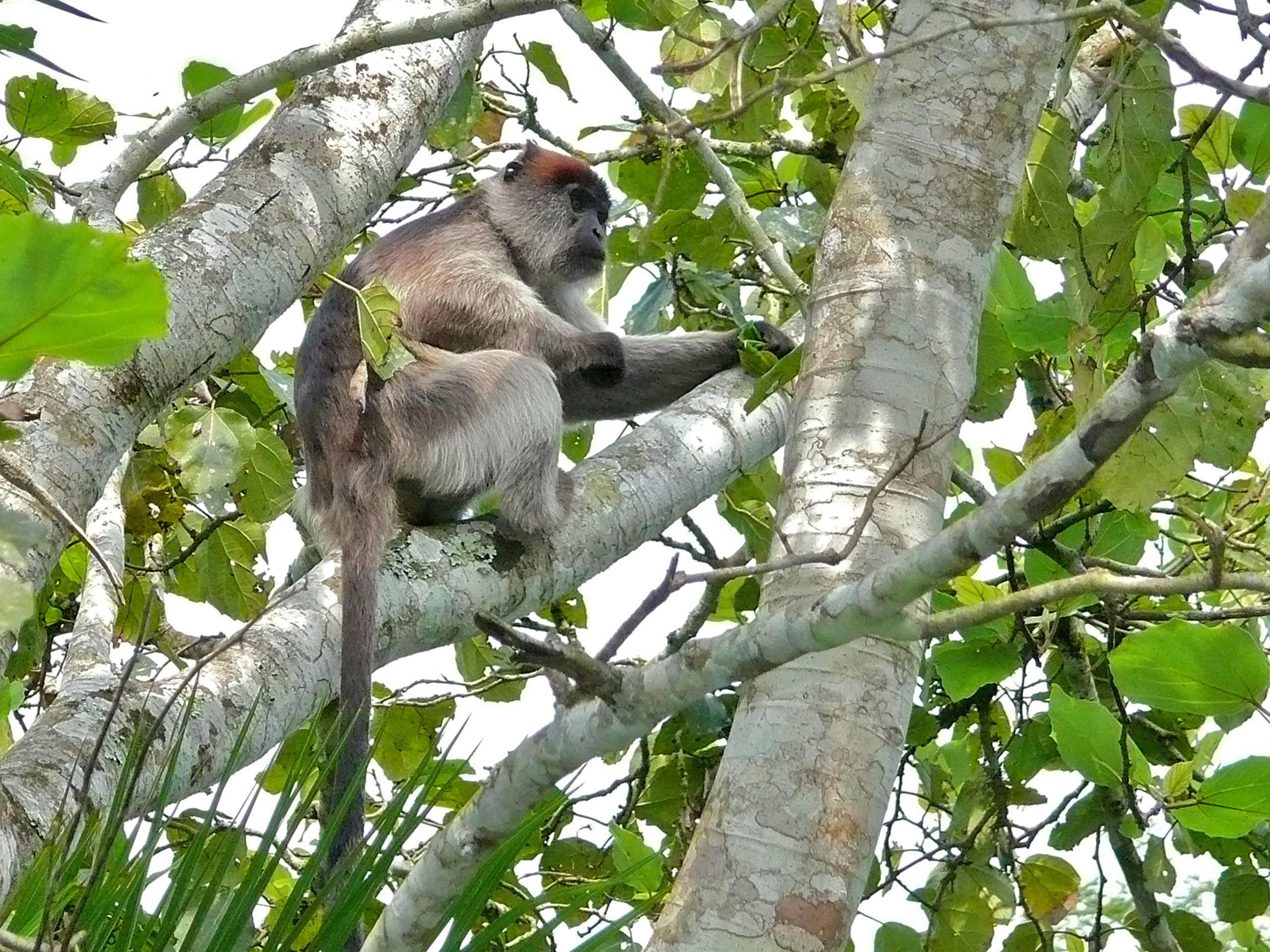 Bigodi Wetland Sanctuary, UGANDA